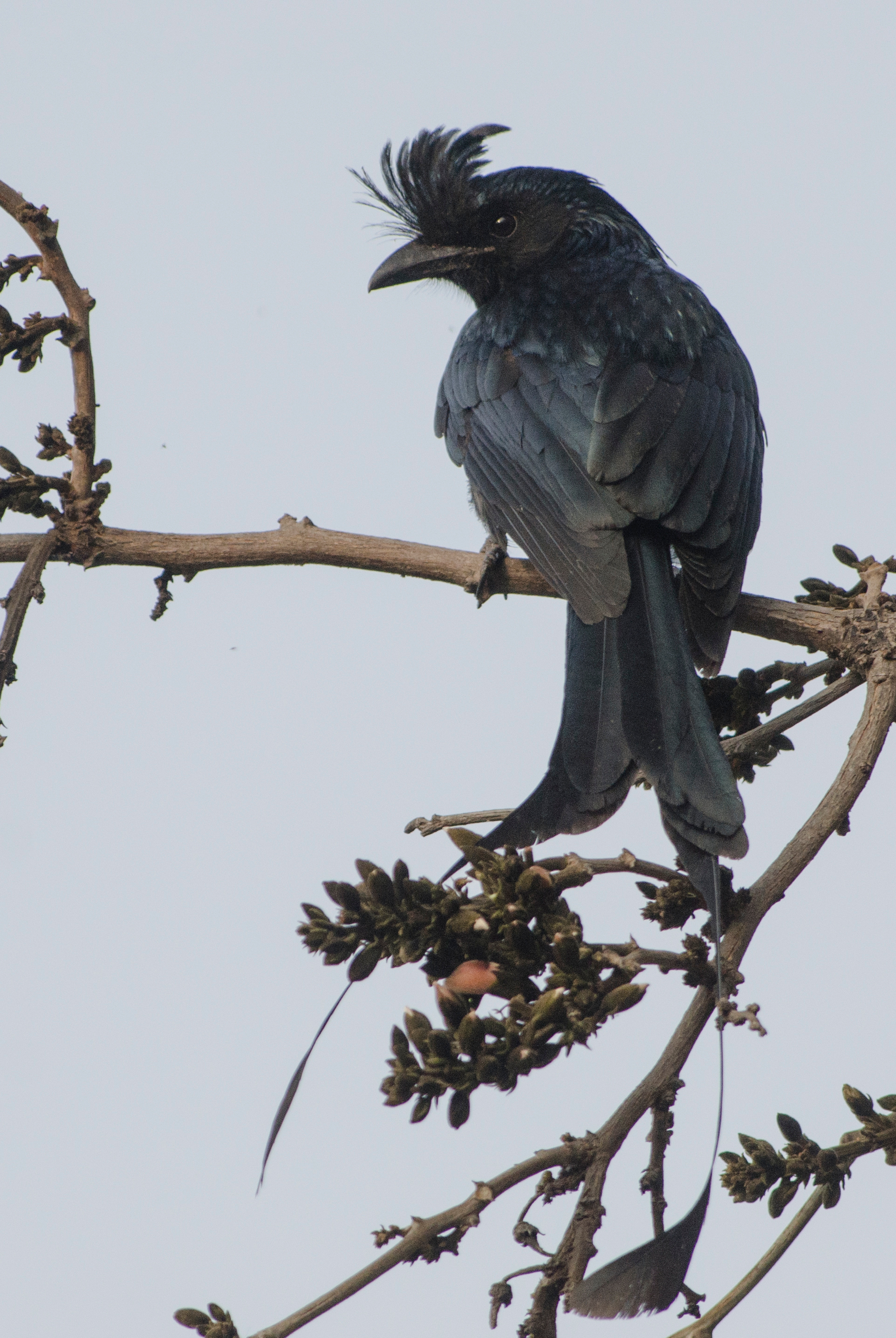 Racket-tailed Drongo, Nagpur, by Dr. Tejinder Singh Rawal